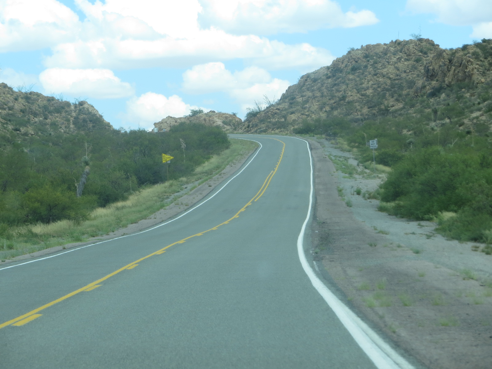 NM 80 passing the southern edge of Granite Peak